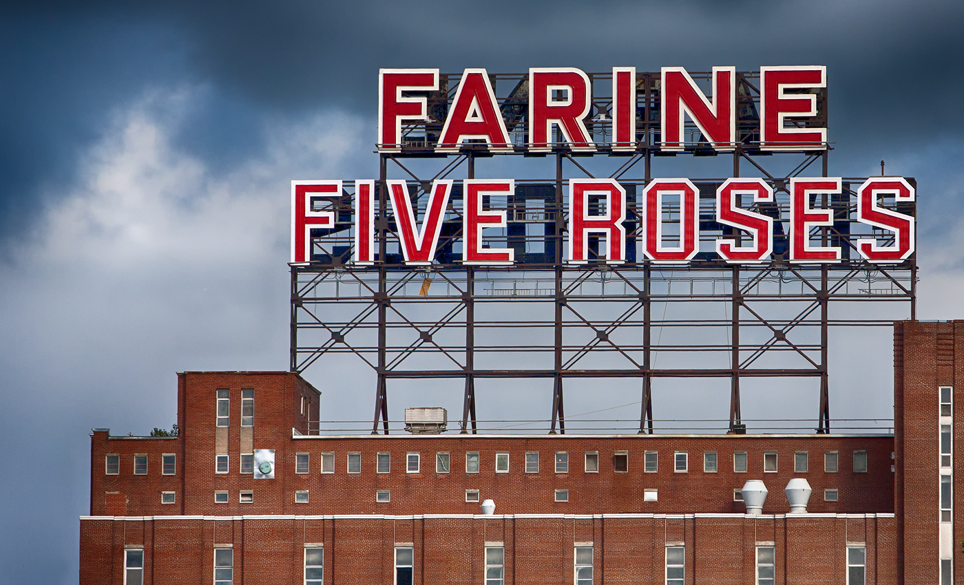 Five Roses Flour (see your pages